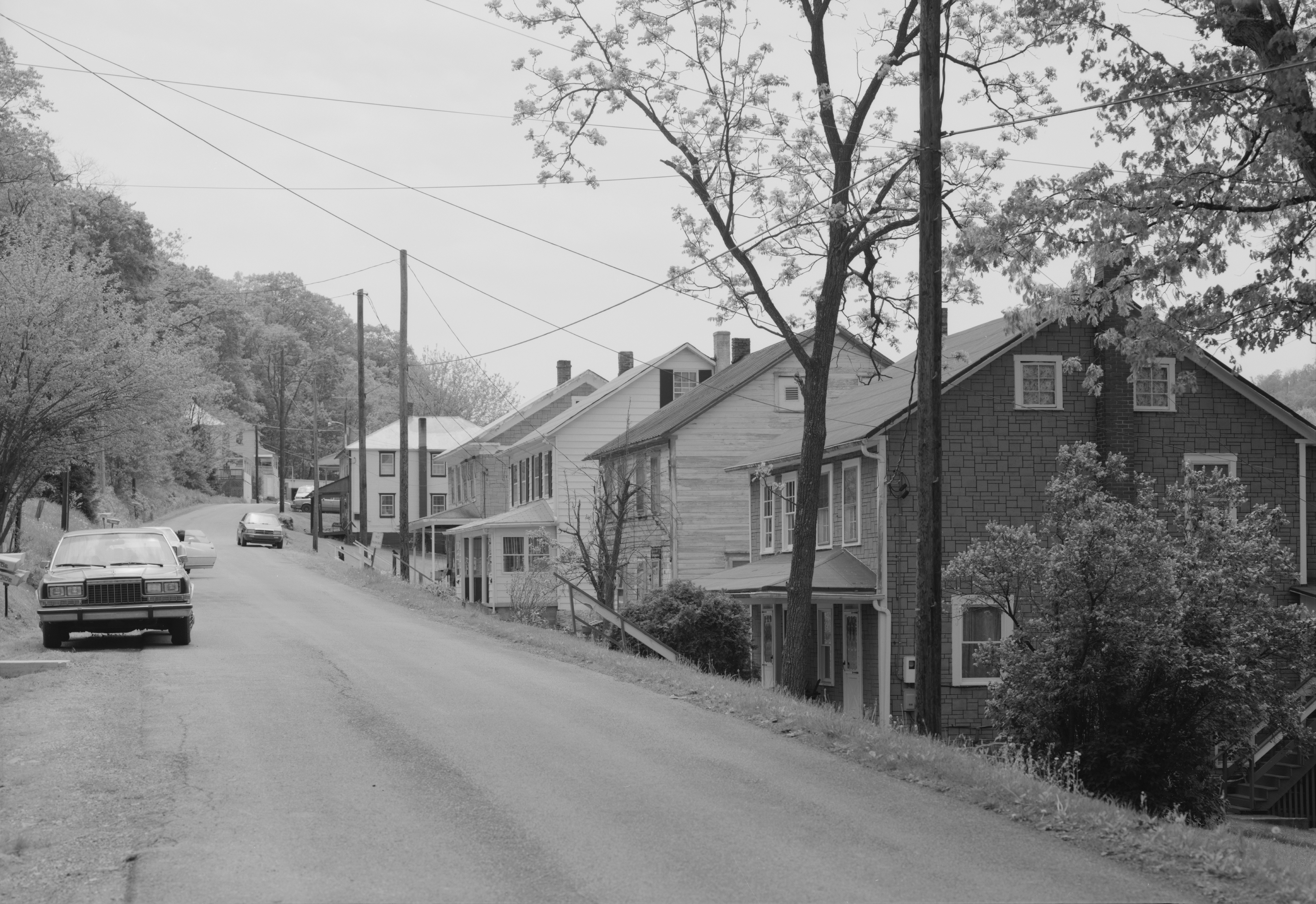 HAER-HABS image of the town of Riddlesburg, Broad Top Township, Bedford County, Pennsylvania